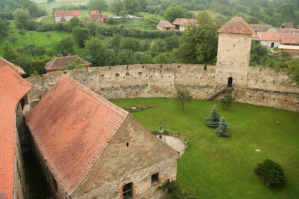 Main court of Câlnic fortress (Câlnic, Alba, Romania) 03